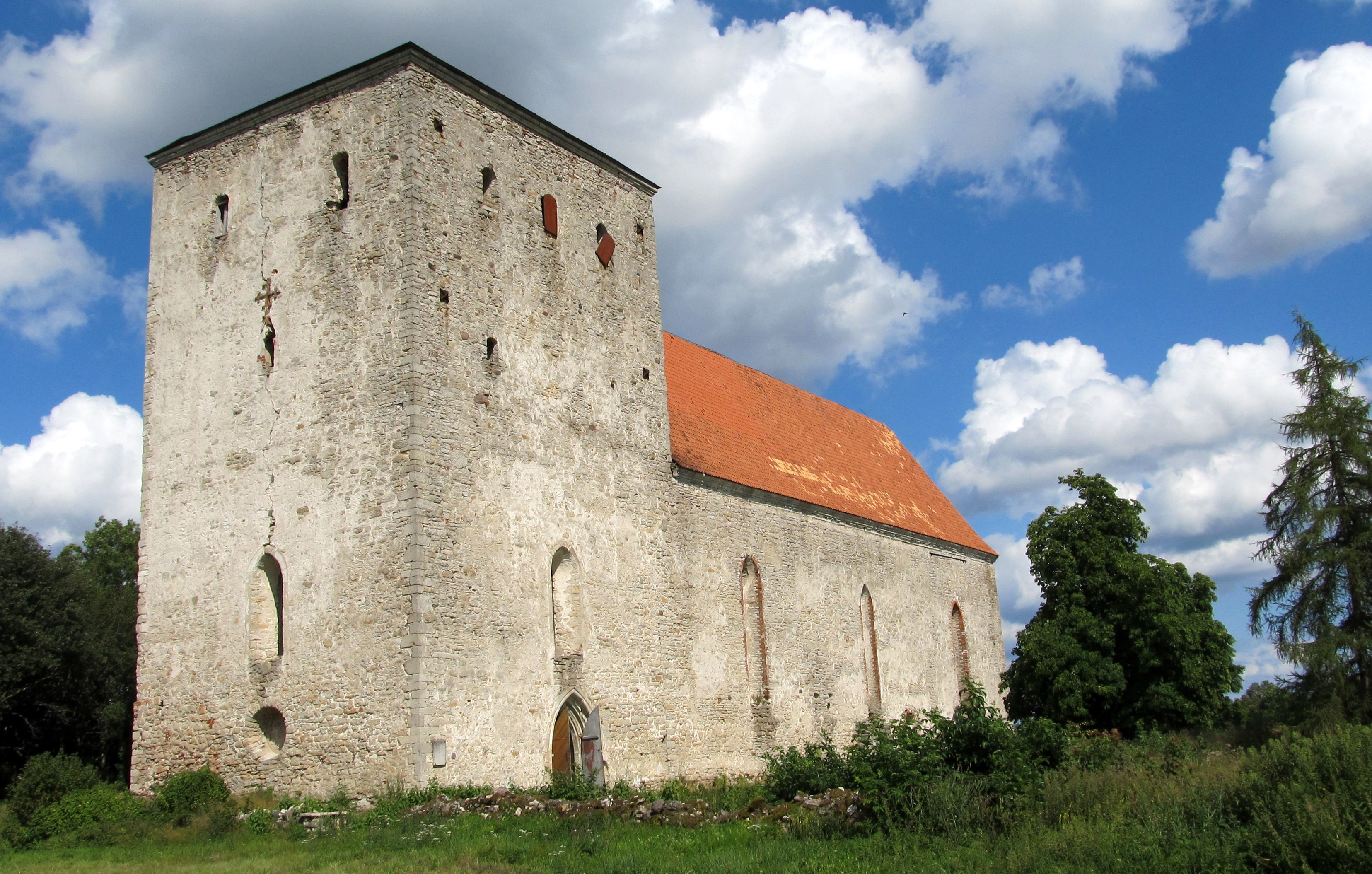 Pöide church in the summer of 2011